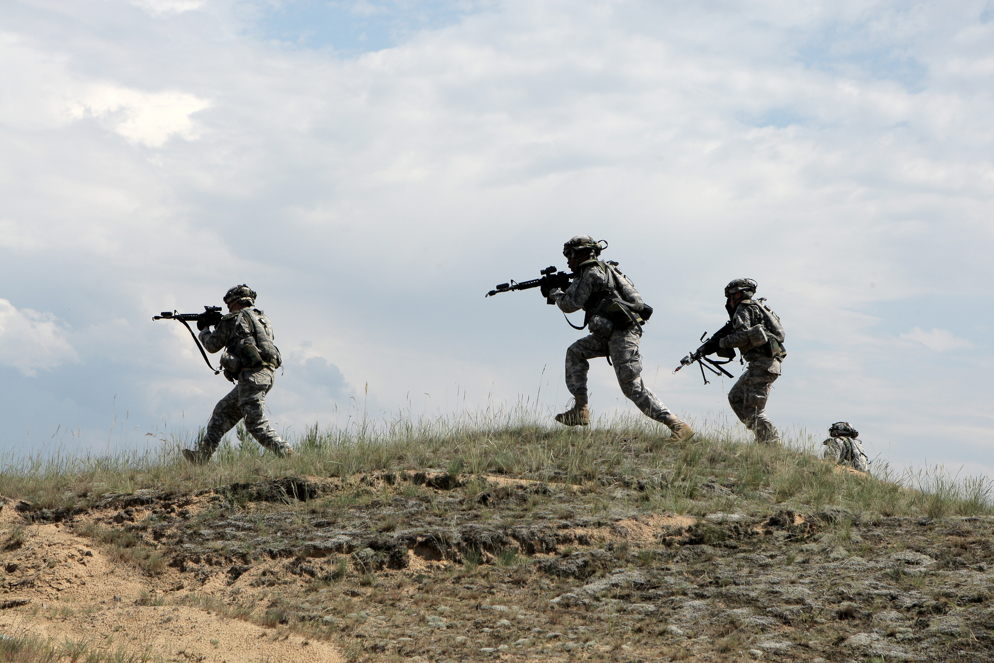 U.S. Soldiers with the Pennsylvania Army National Guard move forward during an attack during a situational training exercise in Ādaži, Latvia, June 5, 2013, during exercise Saber Strike 2013. Saber Strike is a U.S. European Command-sponsored, Joint Chiefs of Staff-directed regional and multilateral command post and field exercise designed to increase interoperability between the United States and partner nations.